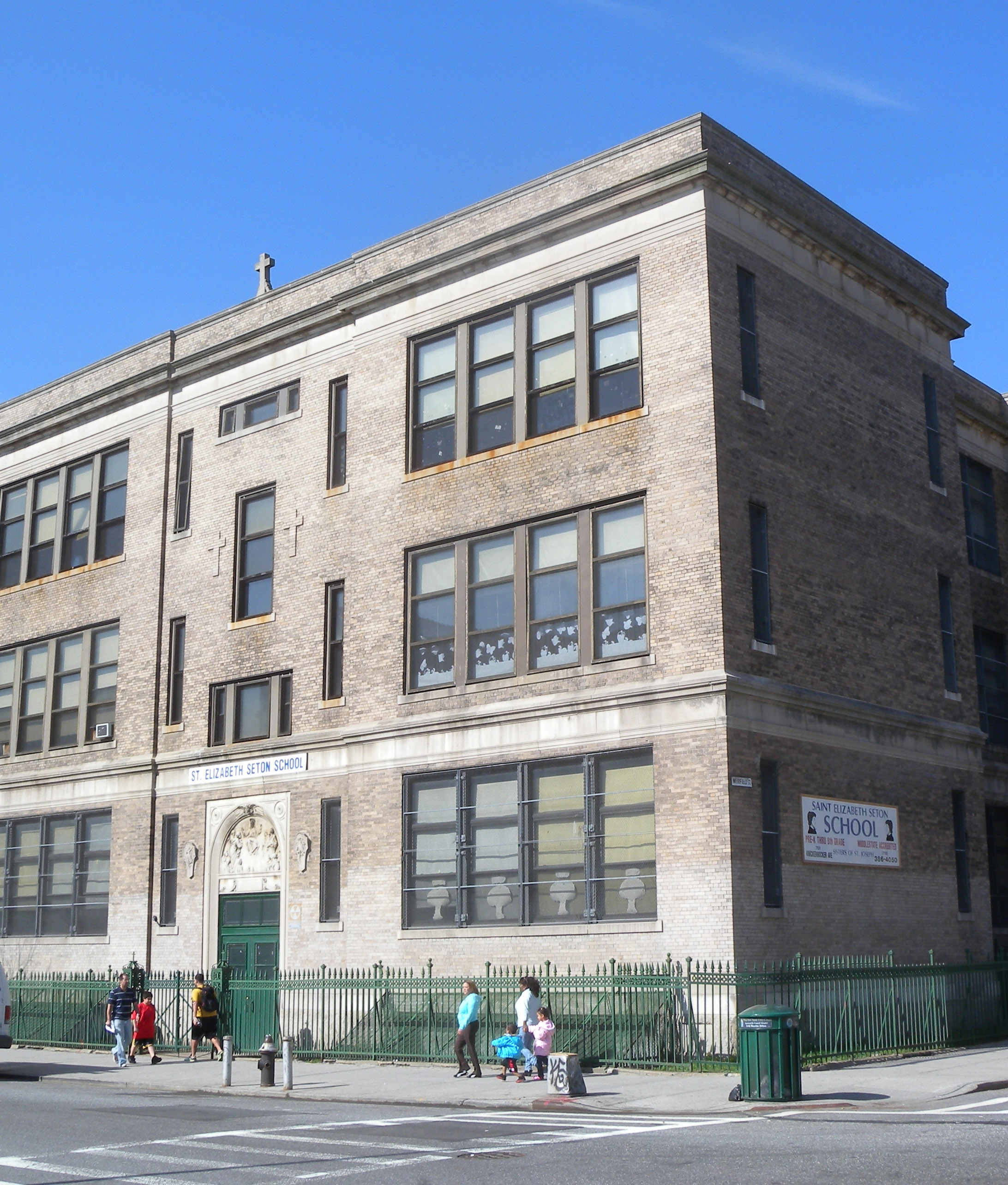 Looking north at St Elizabeth Seton School in Bushwick on a sunny afternoon.